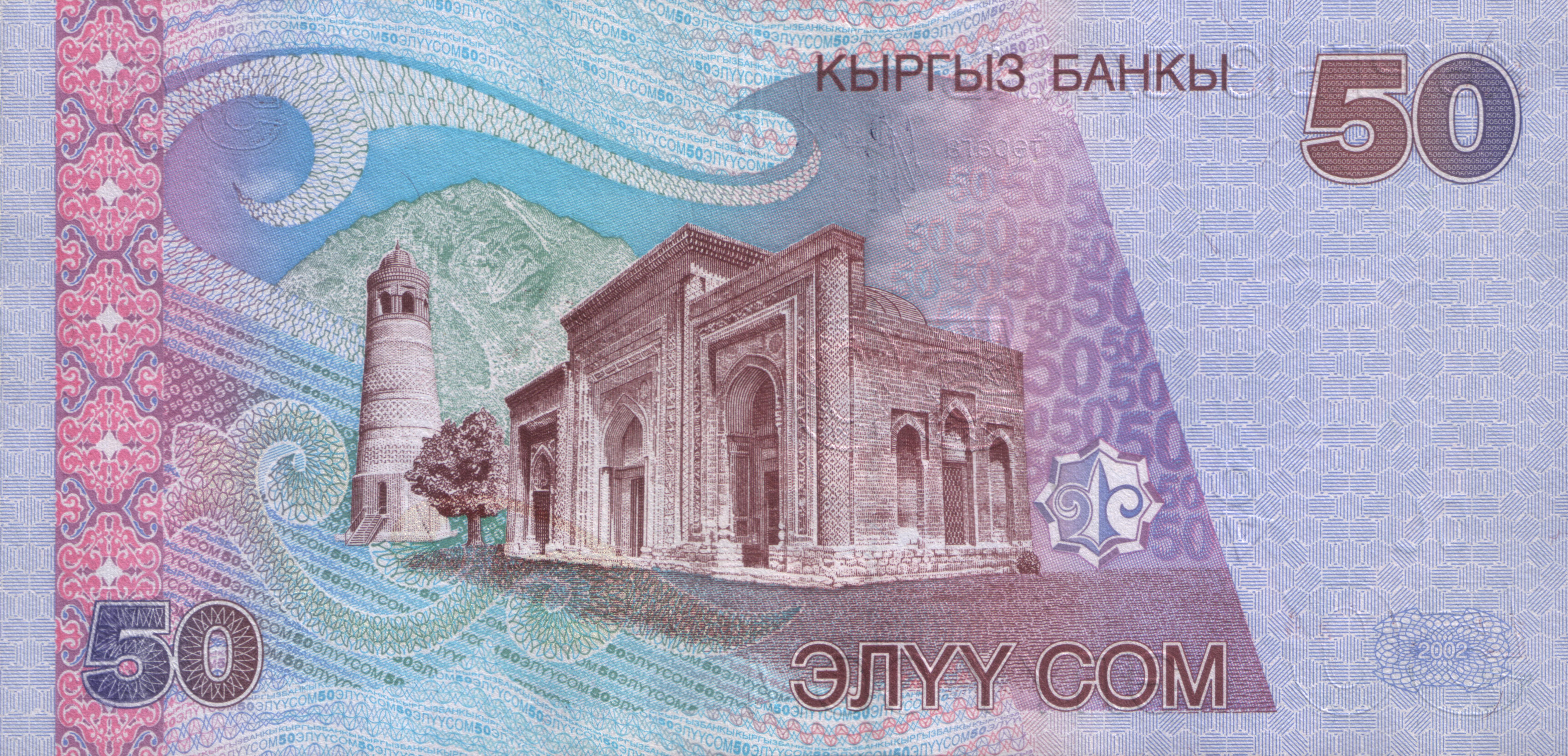 50 som of Kyrgyzstan (2002)